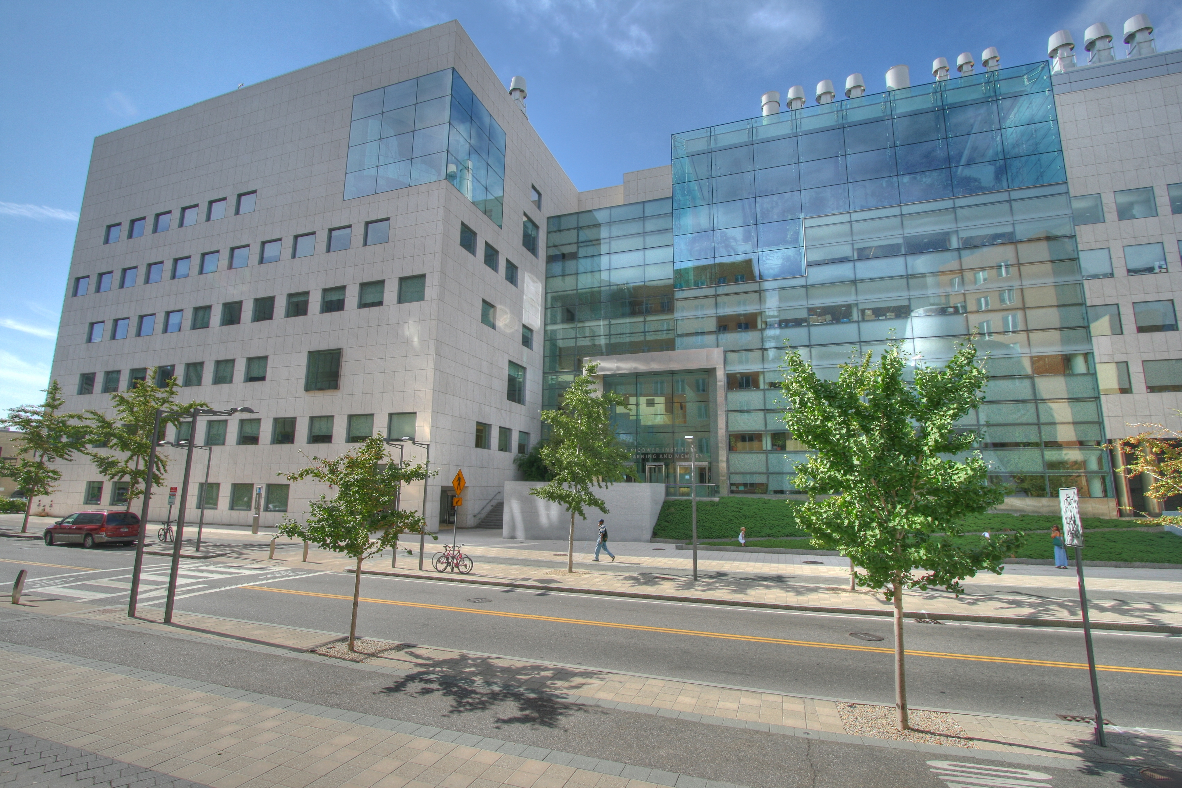 MIT's BUilding 36